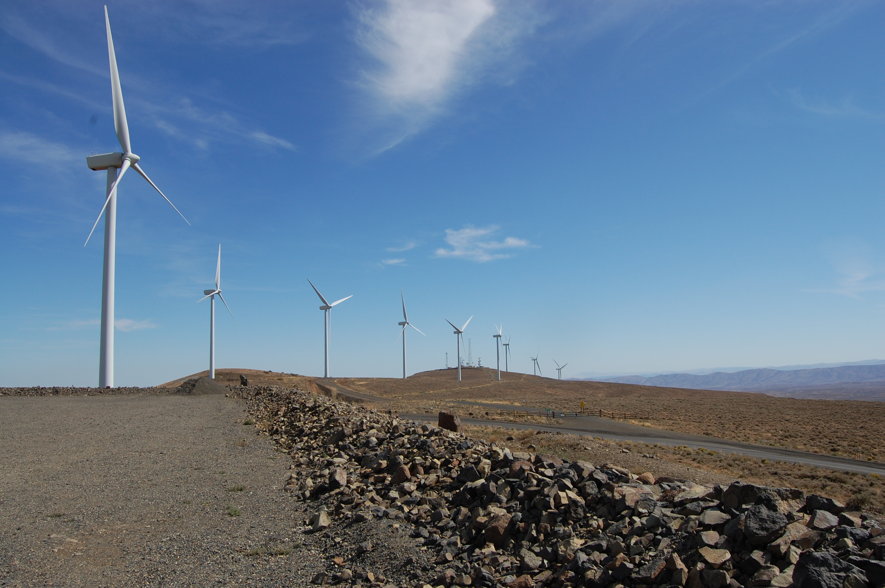 Wind turbines alongside the road leading up to the visitor's center at Wild Horse Wind and Solar Facility in Ellensburg, WA, USA